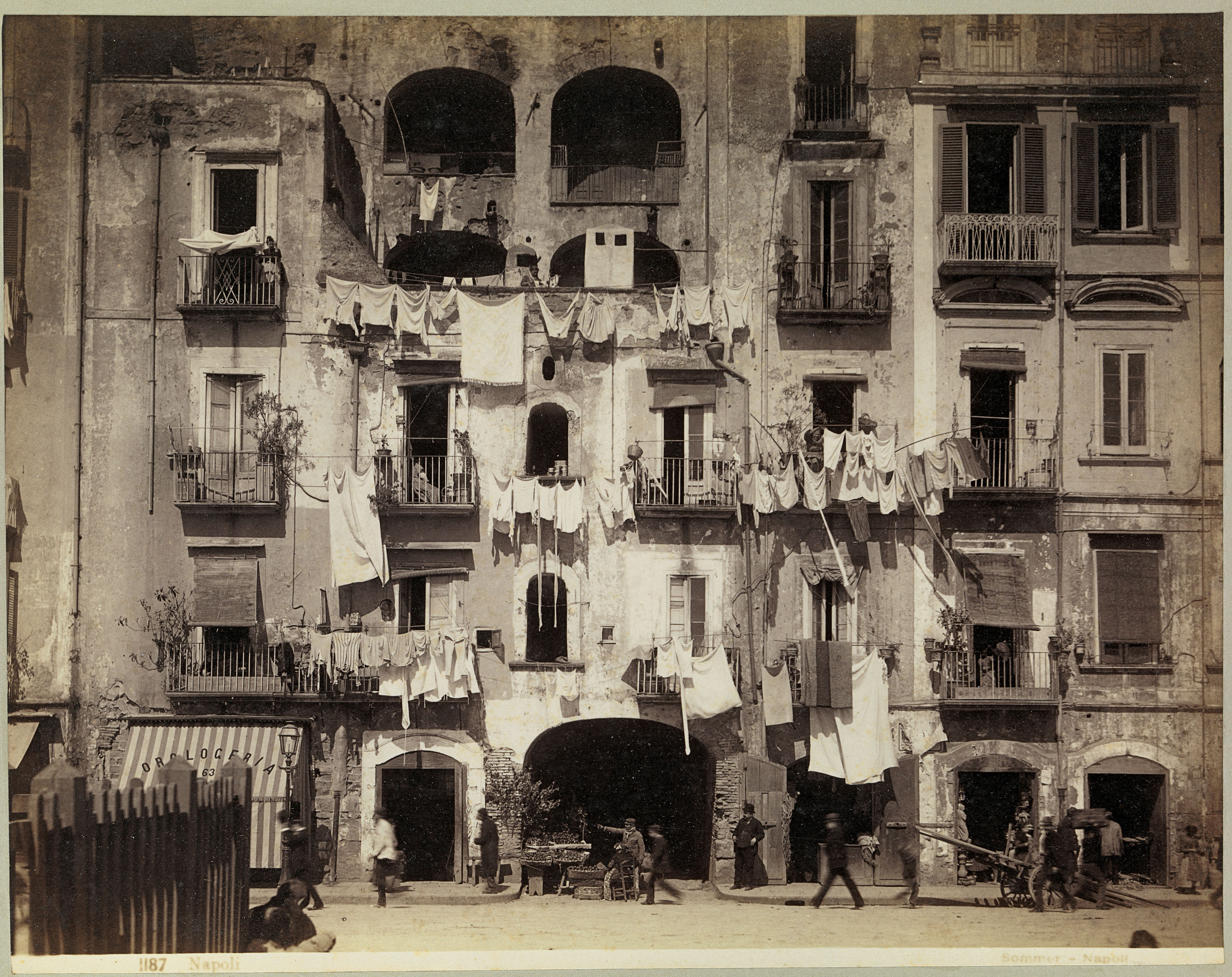 Giorgio Sommer (1834-1914), "Napoli". Catalogue #: 1187.